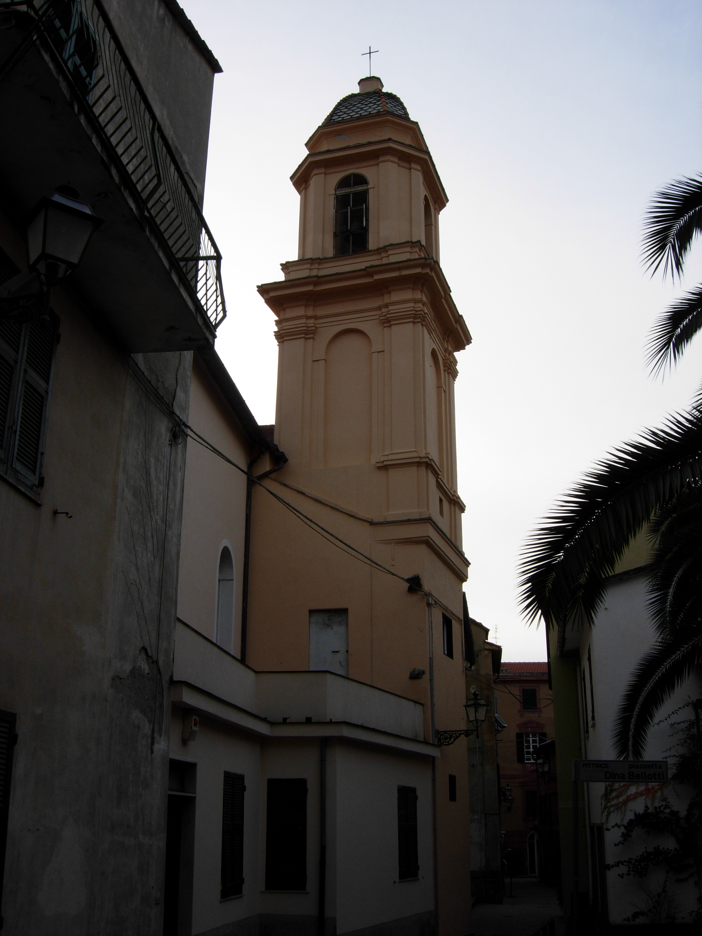 Church tower of San Pietro in Vincoli in Sestri Levante, as seen from piazzetta Dina Bellotti.